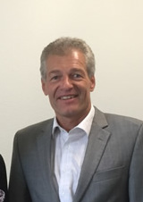 Heinz Karrer, president of Economiesuisse, on 7 September 2016.